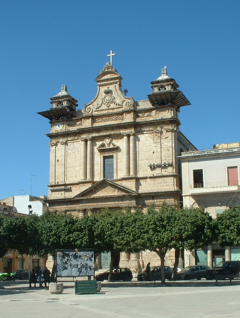 Pachino, façade of Holy Cross Parish Church (1790).